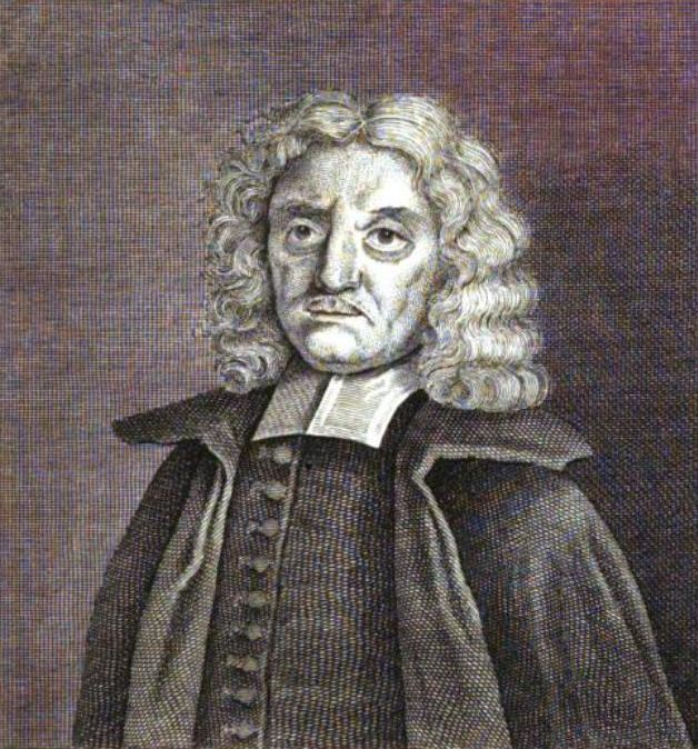 Jeremiah White (1629–1707) was a 17th century Nonconformist minister, preacher to the Council of State, and Puritan chaplain to Oliver Cromwell. Portrait published in 1819. Source